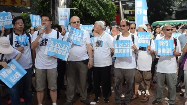 Hong Kong Activists Prepare for Election Referendum